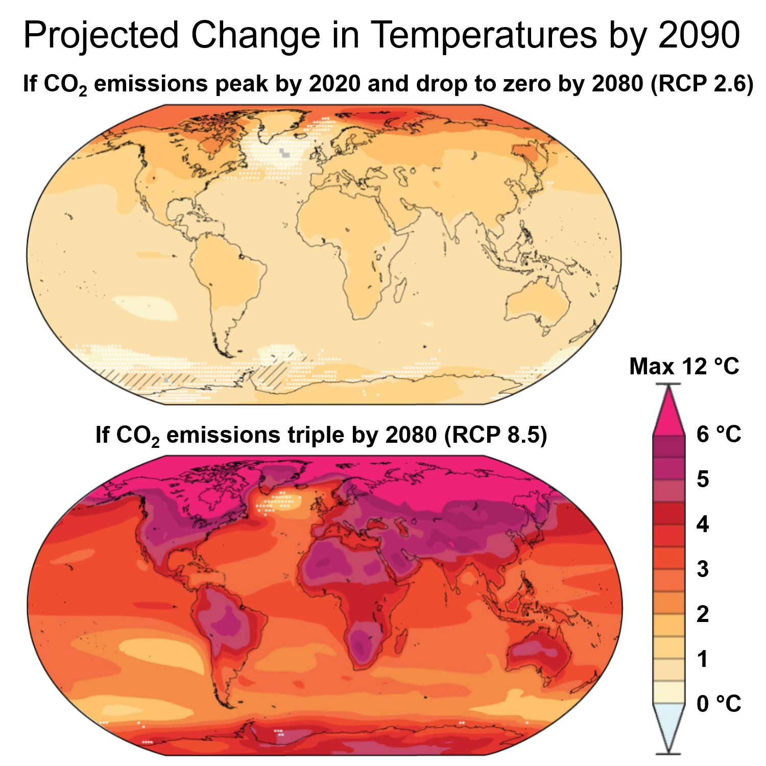 Coupled Model Intercomparison Project Phase 5 (CMIP5) multi-model mean projections (i.e., the average of the model projections available) for the 2081–2100 period under the RCP 2.6 and RCP 8.5 scenarios for change in annual mean surface temperature. Changes are shown relative to the 1986–2005 period. Data from the IPCC Fifth Assessment Report.